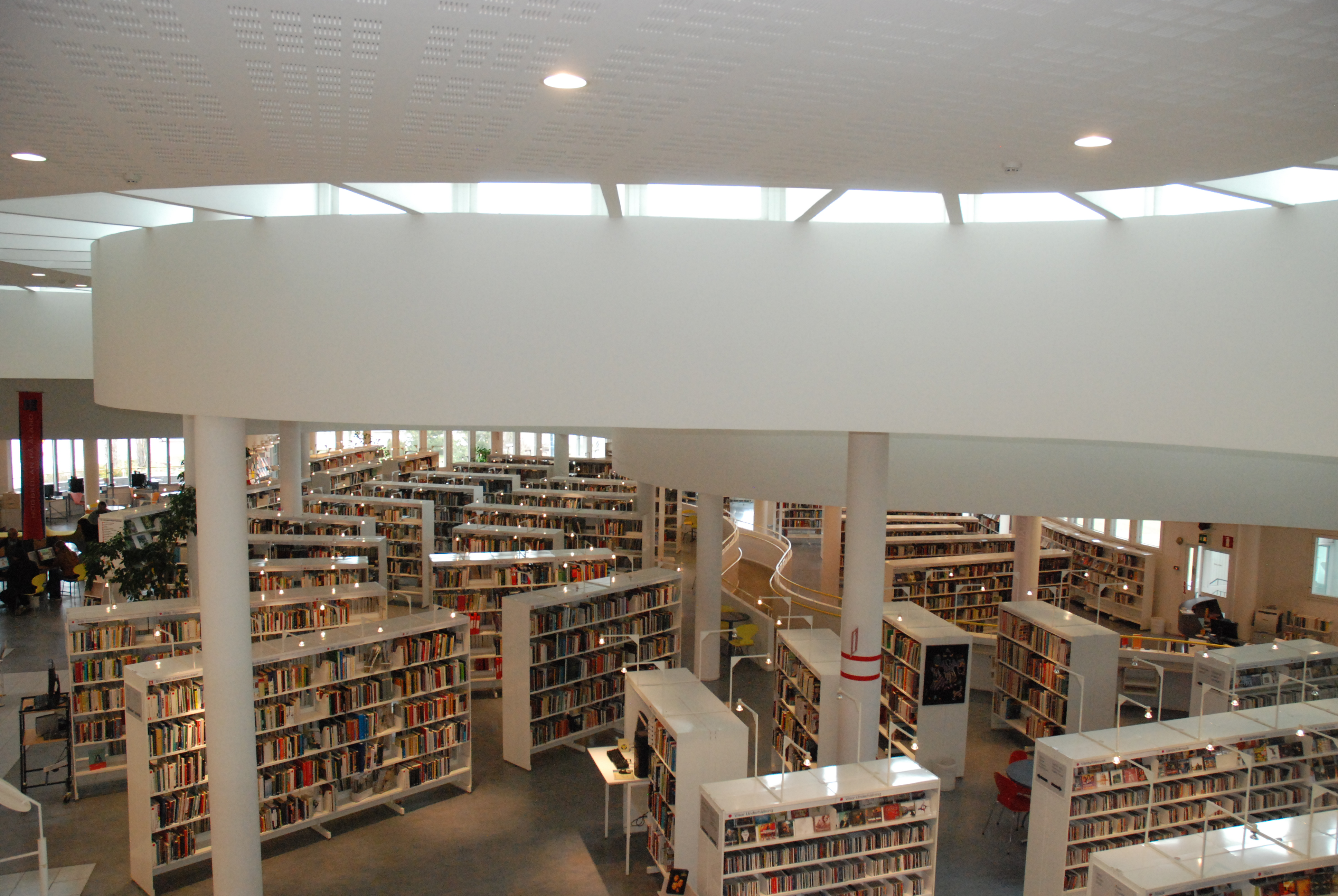 Mariehamn City Library Keywords: Architecture, Culture, Literature, Education, Åland Islands